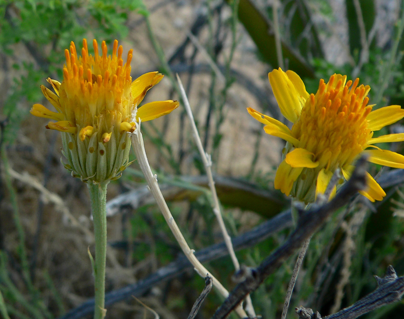 Adenophyllum cooperi in Pahranagat Wash where it crosses State Road 168 near Coyote Springs, southern Nevada